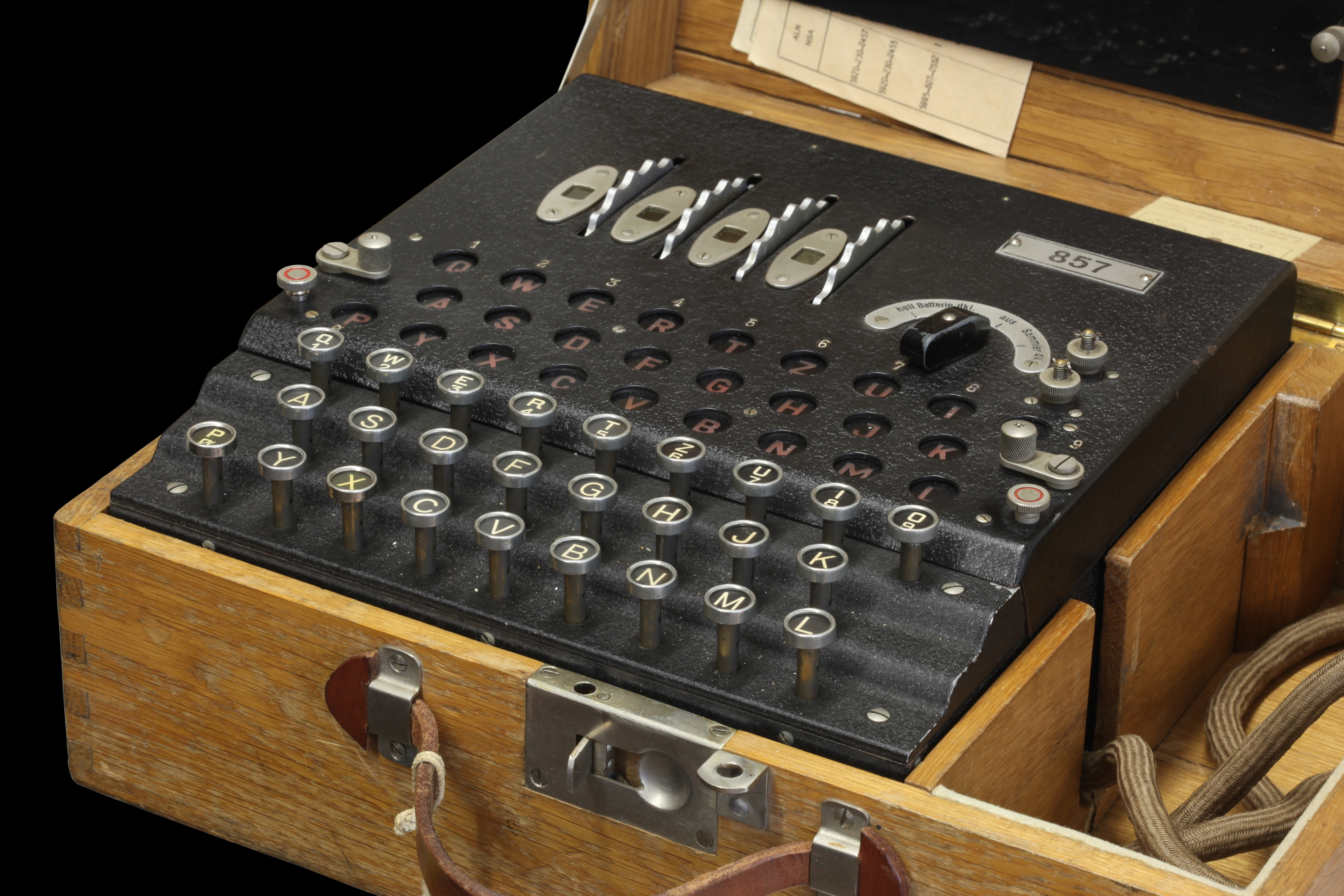 Enigma-K machine of the Swiss Army. Cryptography collection of the Swiss Army headquarters The making of this document was supported by Wikimedia CH. (Submit your project!) For all the files concerned, please see the category Supported by Wikimedia CH.